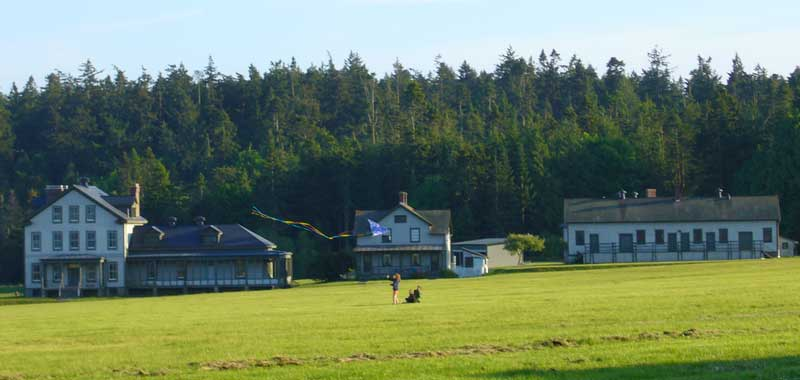 Kite flying on the parade ground at Fort Flagler State Park in Washington. The old hospital building (left) and the ranger's residence is seen in the background.